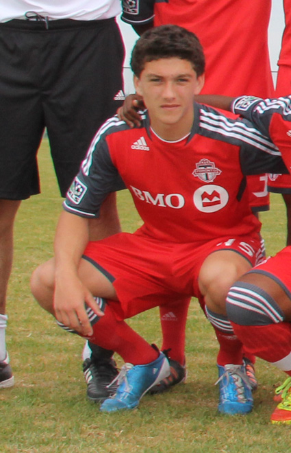 Manny Aparicio in the TFC Academy starting lineup in 2012.